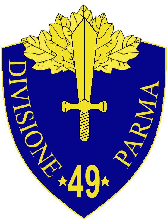 49a Divisione Fanteria Parma insignia, Regio Esercito, Italy, WWII